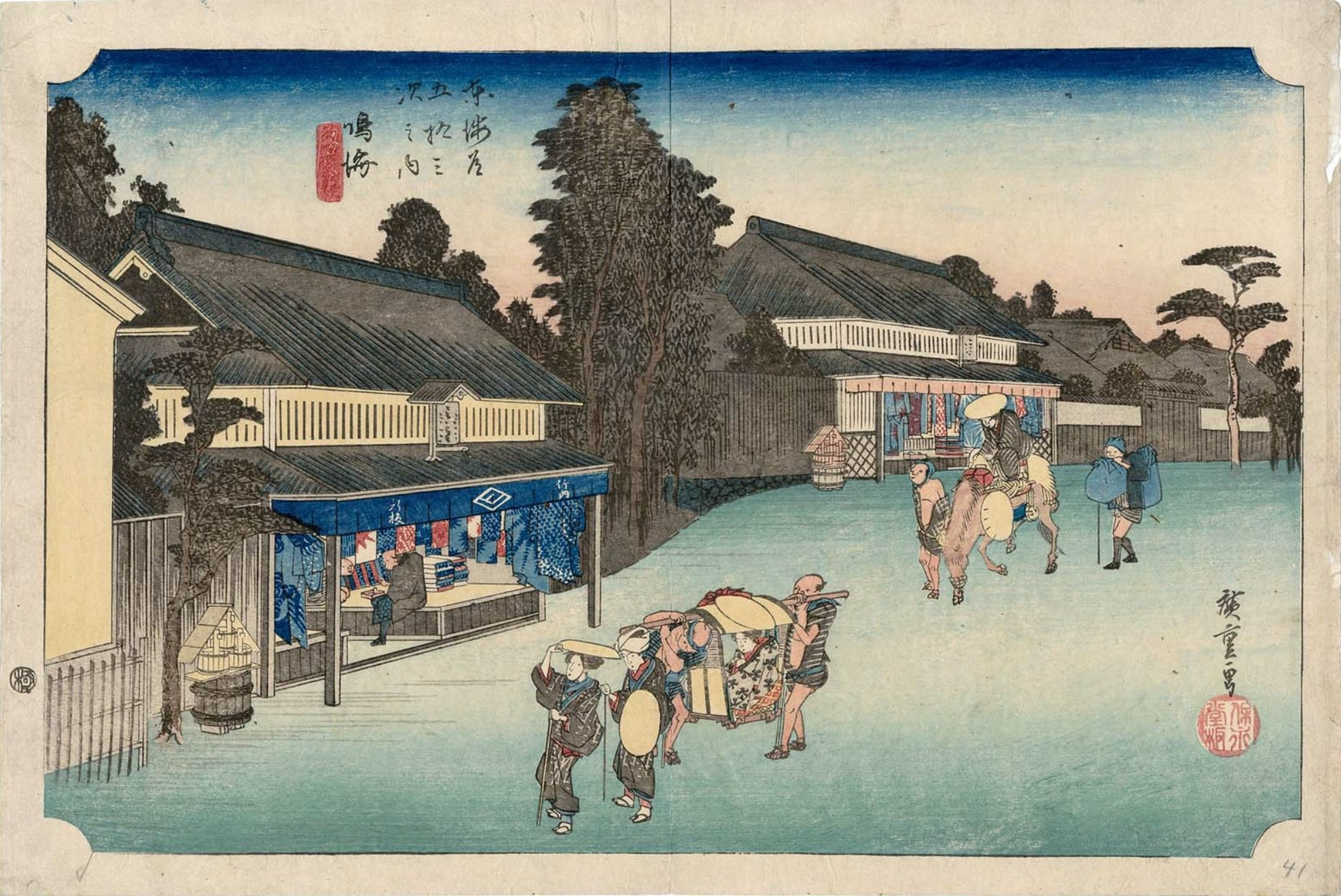 Station Narumi, „Famous Arimatsu Tie-dyed Fabric“ (meibutsu Arimatsu shibori, 名物有松絞; variant b; publisher seal Hoeidō han (保永堂板)